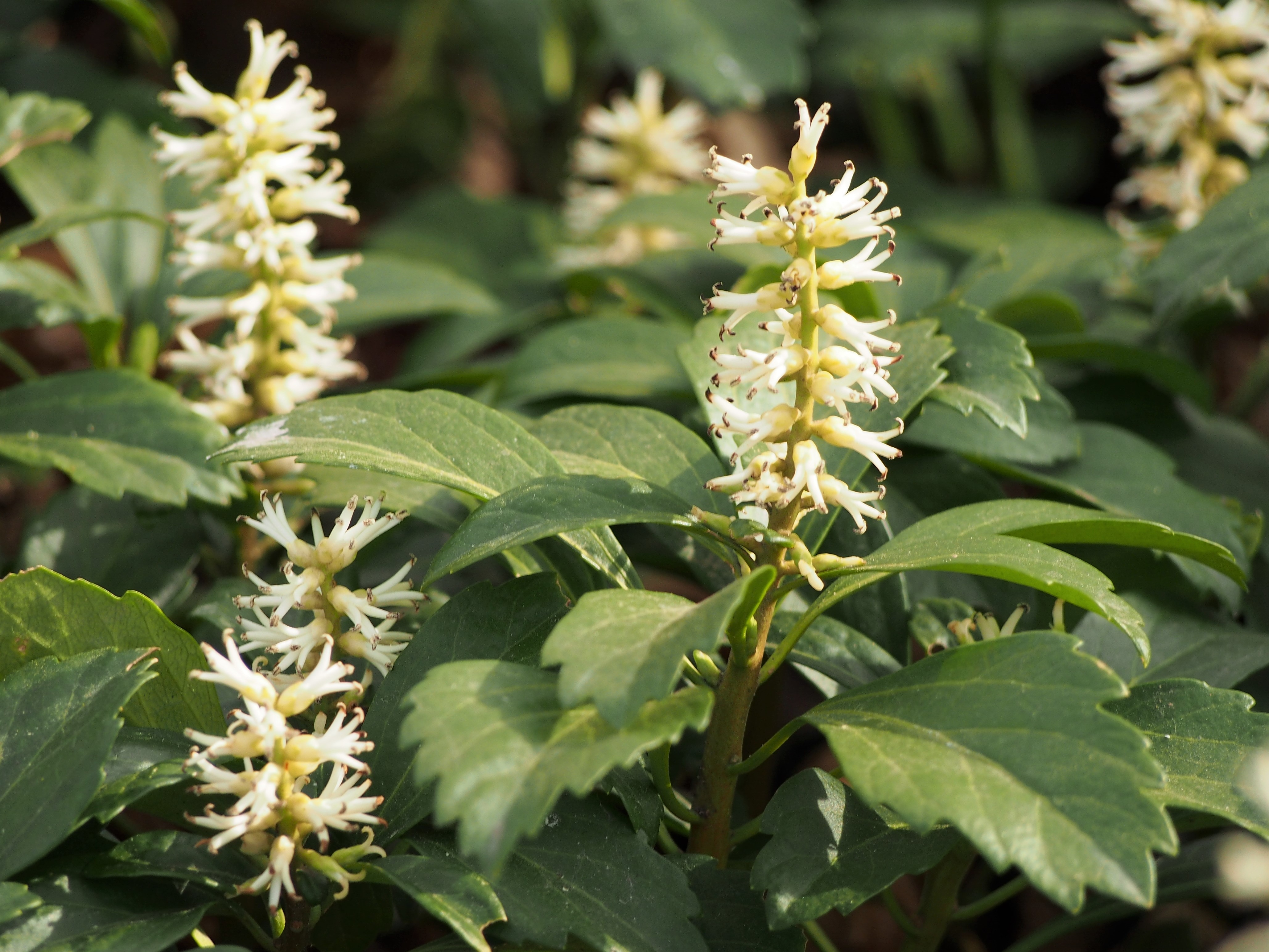 Pachysandra terminalis, flowering plants, cultivated in Wrocław University Botanical Garden, Wrocław, Poland.